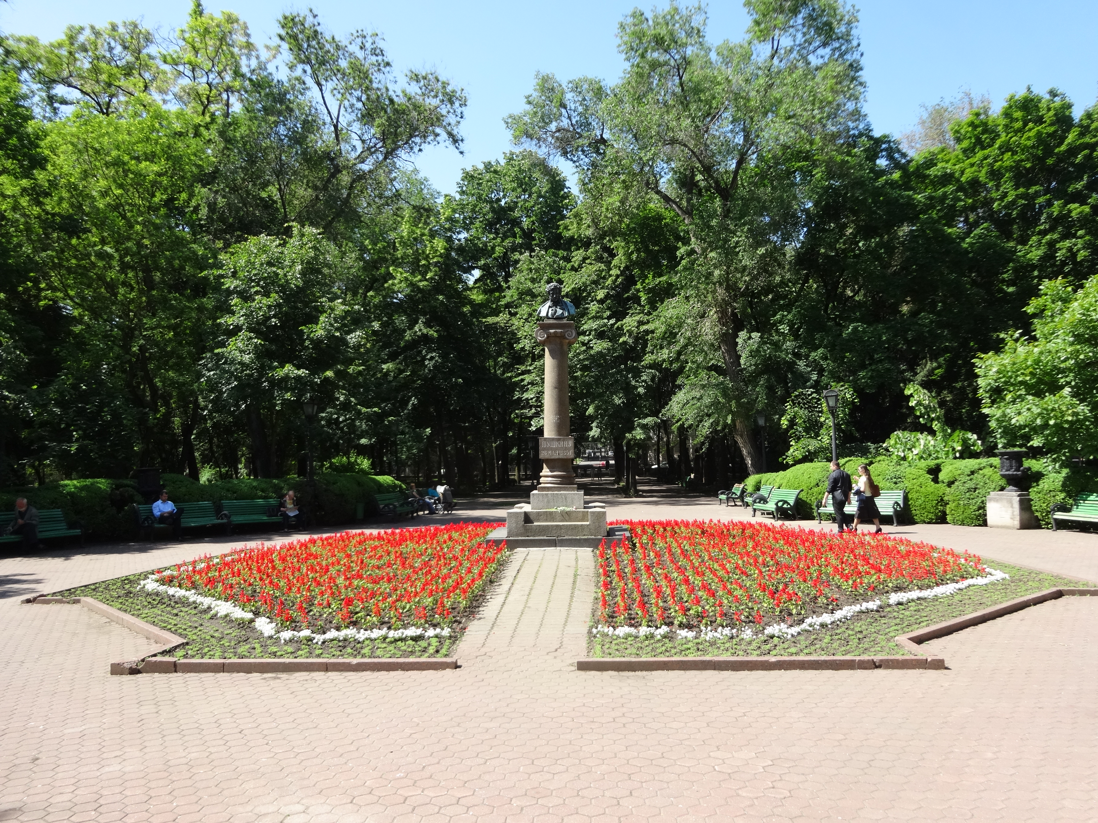 Ștefan cel Mare Central Park in Chișinău, Moldova